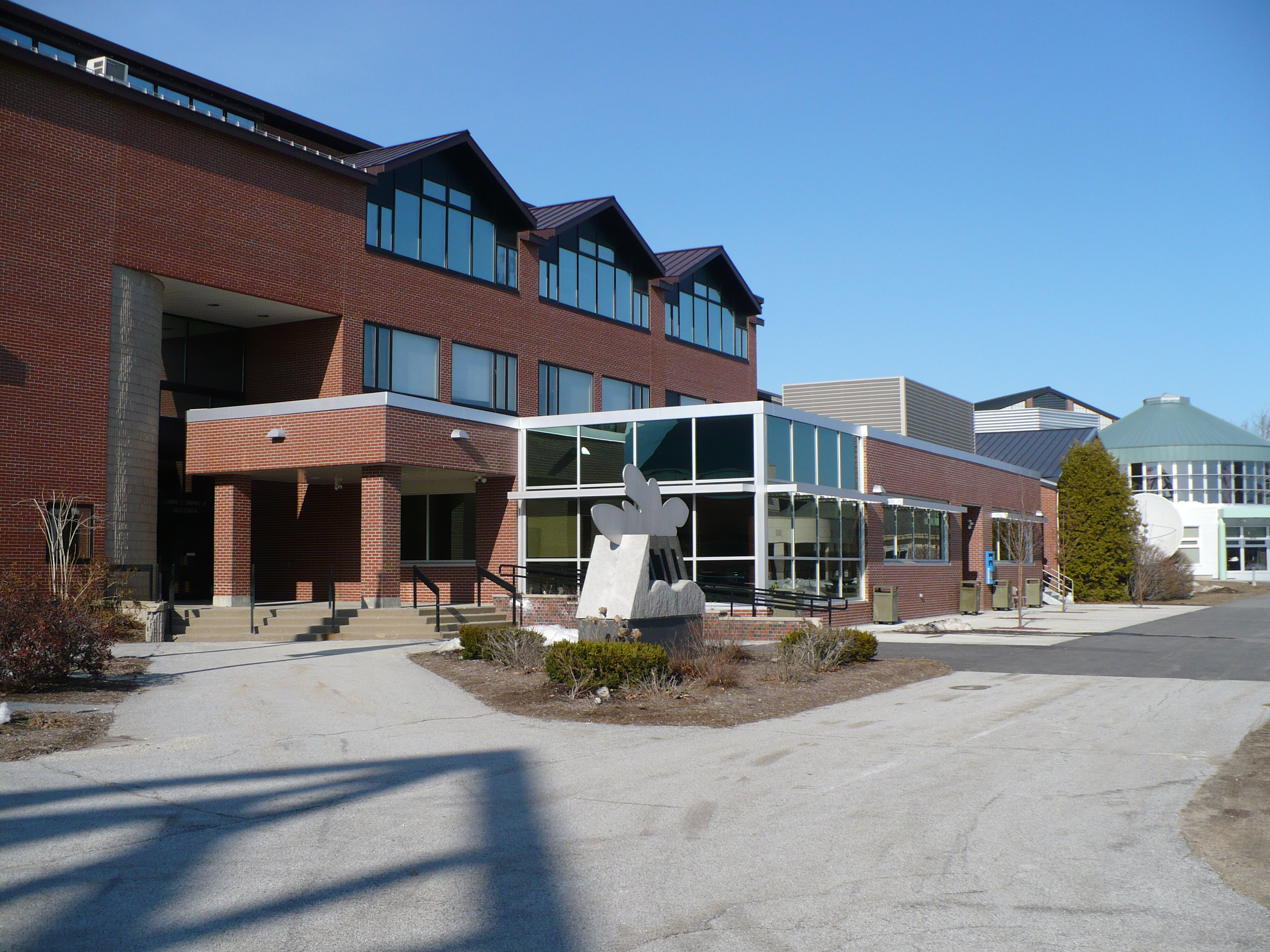 NHTI's Sweeney Hall, with the Bistro below and the Student Center partly visible to the right.